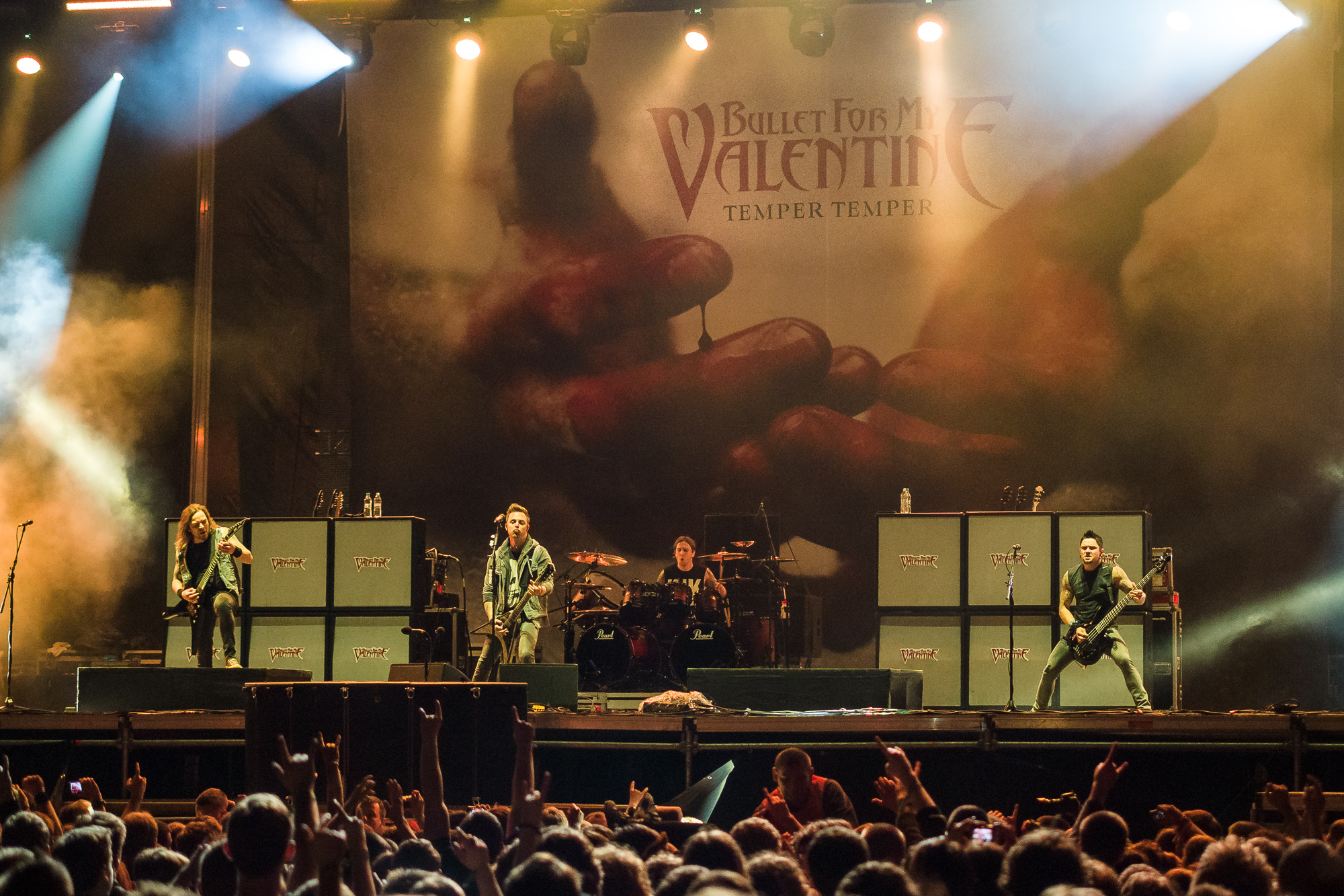 Bullet for My Valentine band during Ursynalia 2013 Warsaw Student Festival, Poland. This photo was taken with Sony SLT-A77 camera, thanks to cooperation with Sony Poland.You can see all photographs in category Taken with Sony SLT-A77. English | polski | +/−